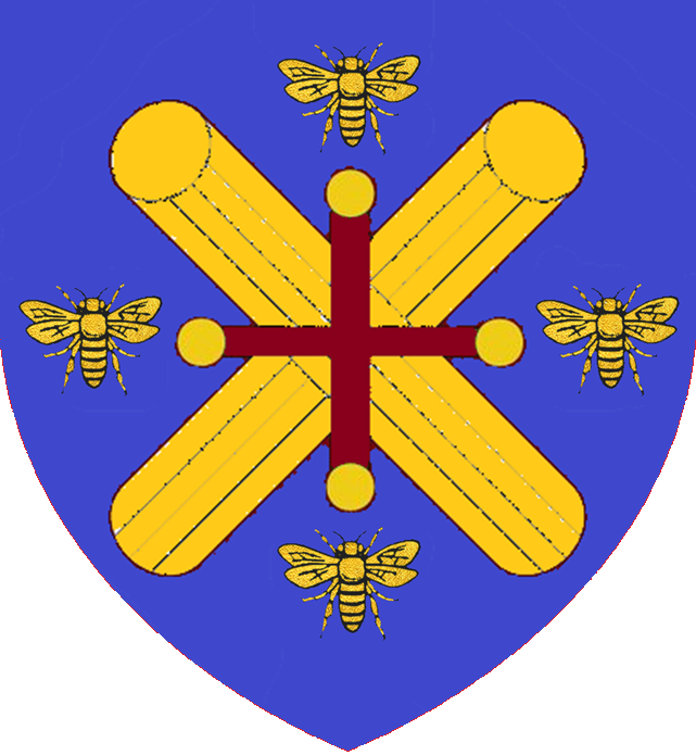 Shield of arms of The Viscounts Rothermere